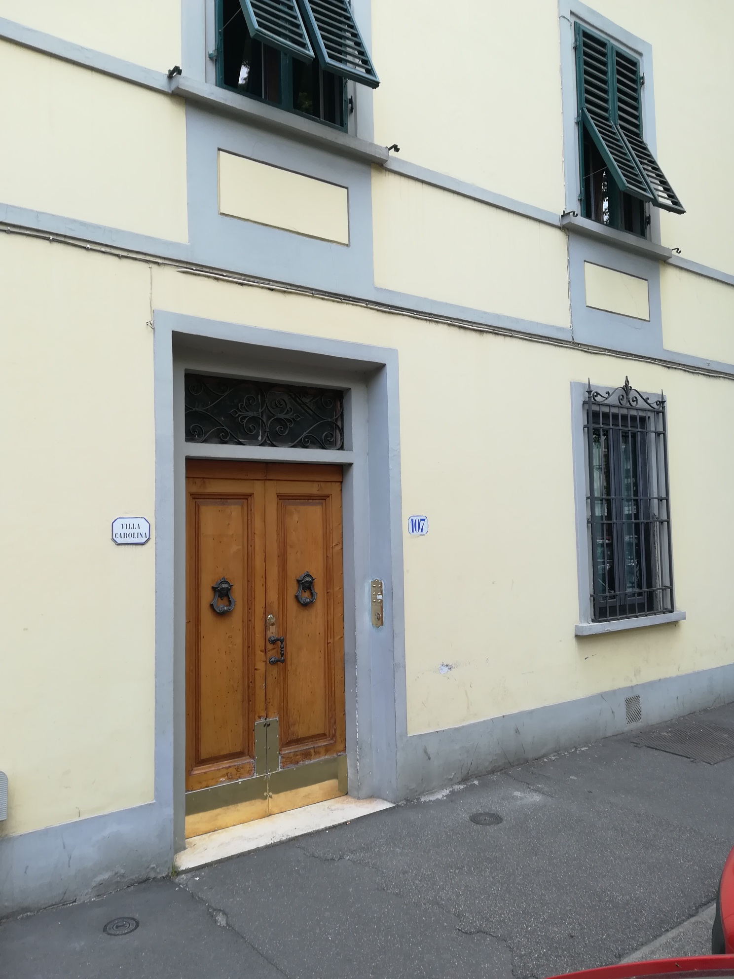 Carolina Invernizio's house in Florence